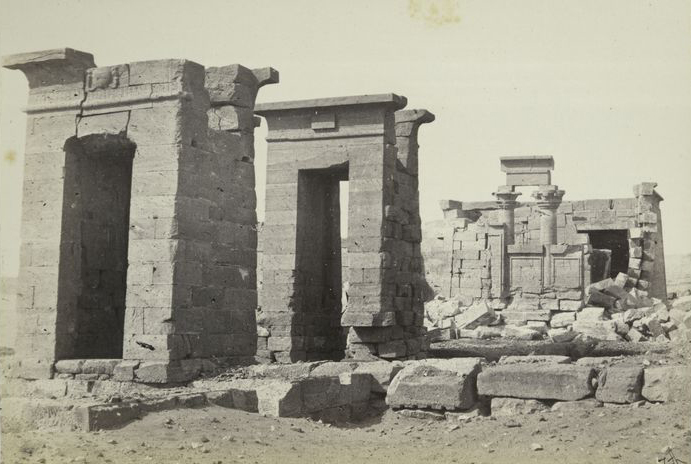 The Temple of Debod, Nubia. Nowadays at Madrid, Spain.